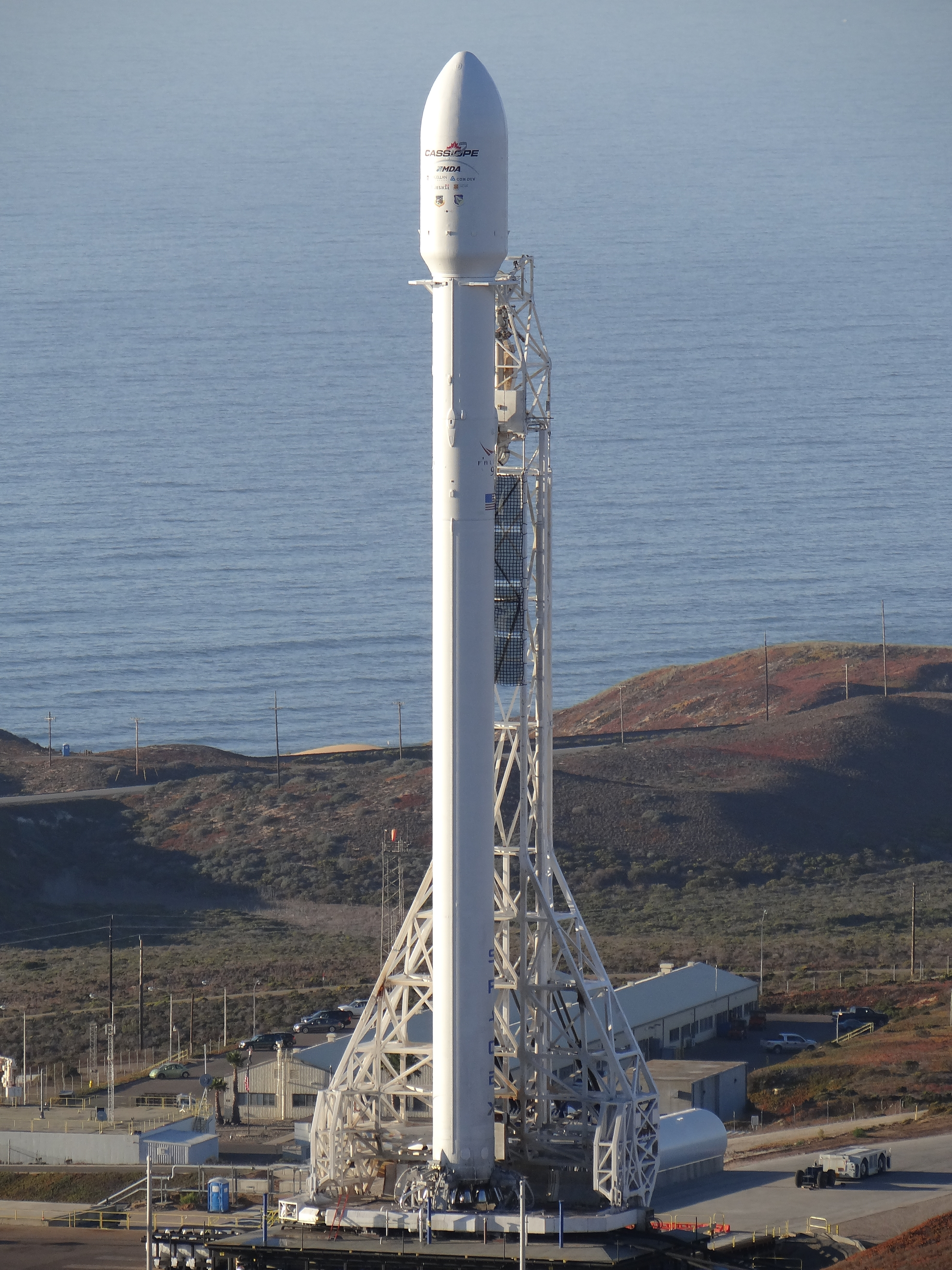 The first SpaceX Falcon 9 V1.1 rocket prepares to launch the CASSIOPE mission from Vandenberg AFB.